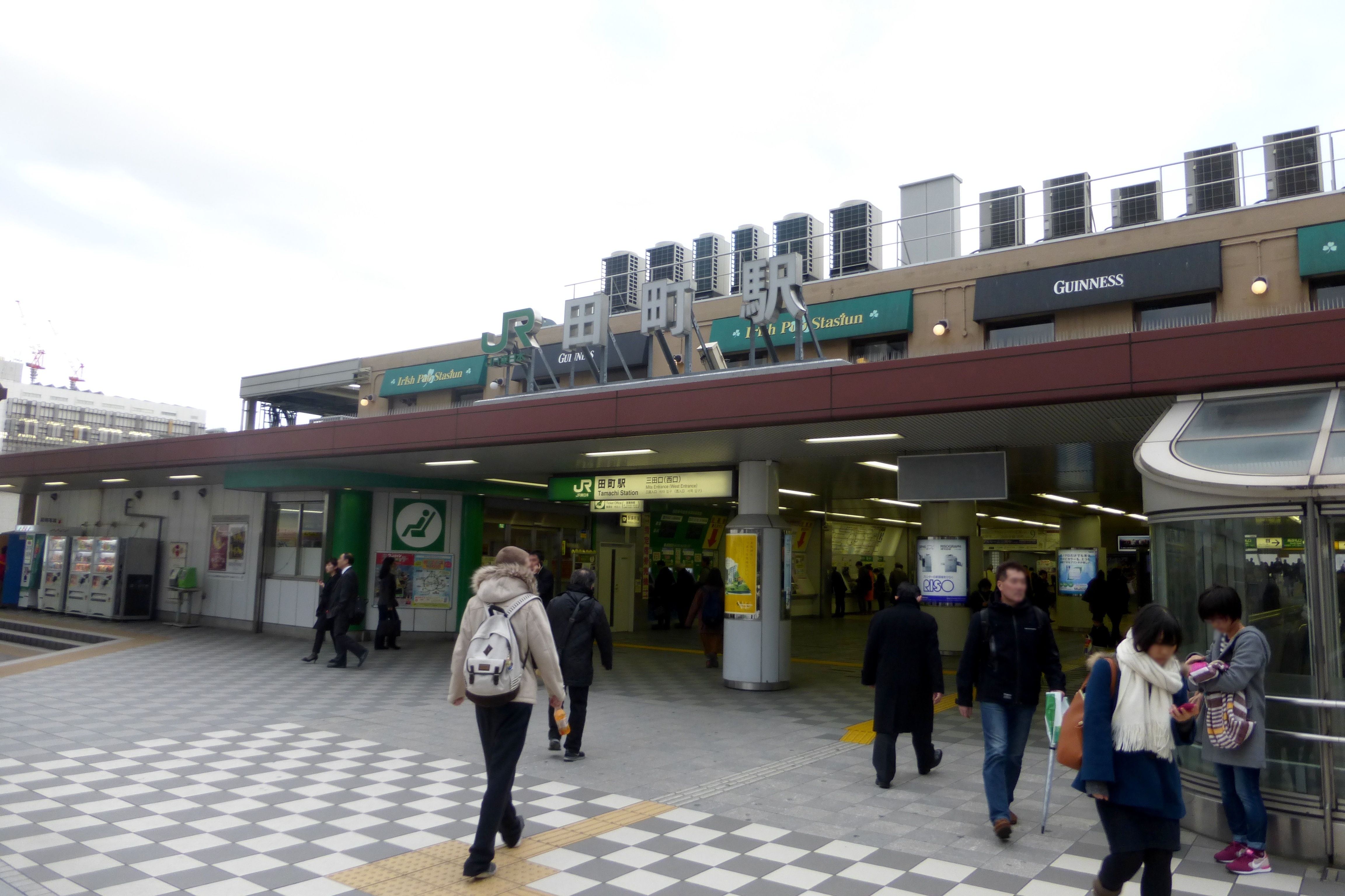 Tamachi Station west exit (Mita entrance)